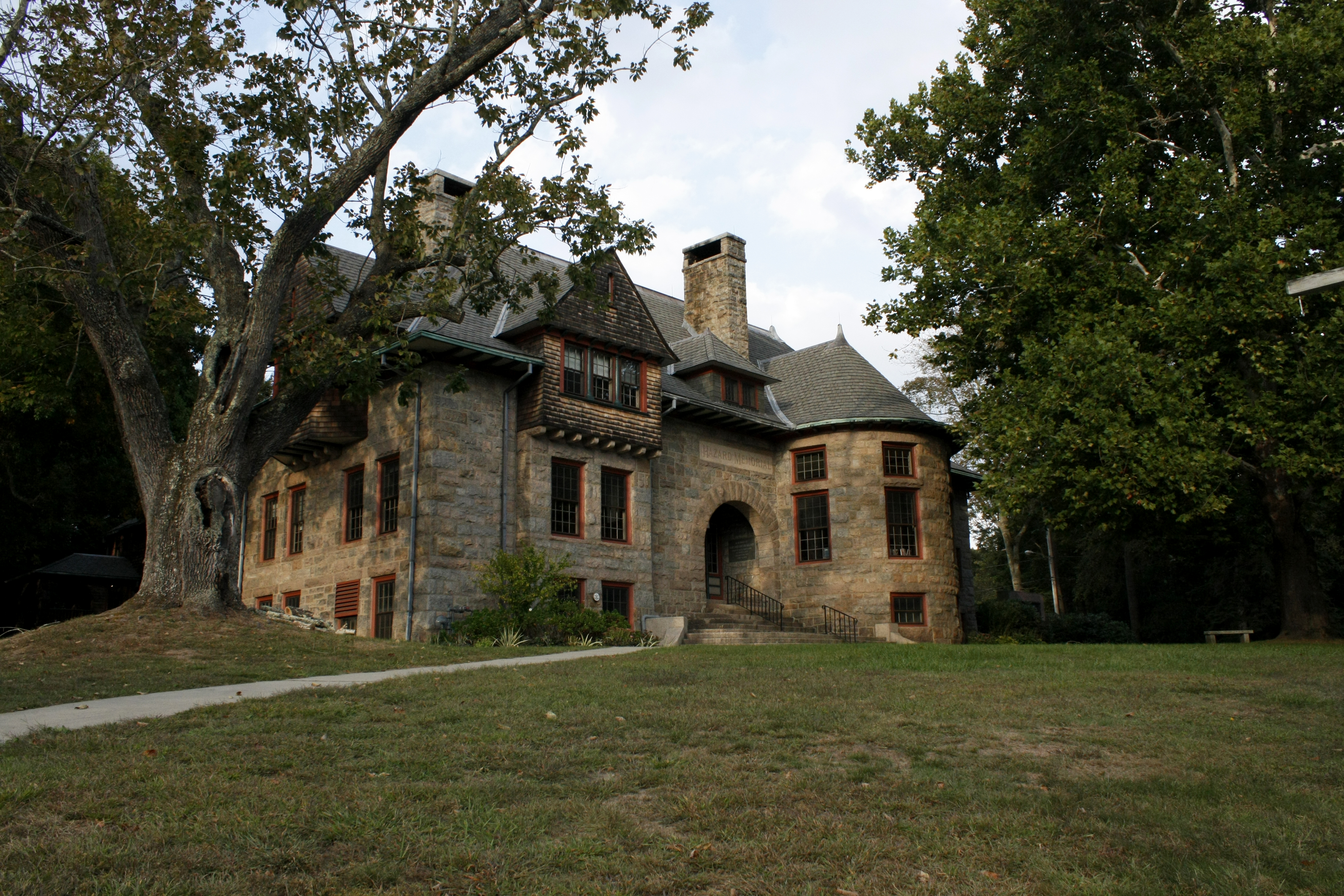 Peace Dale Historic District